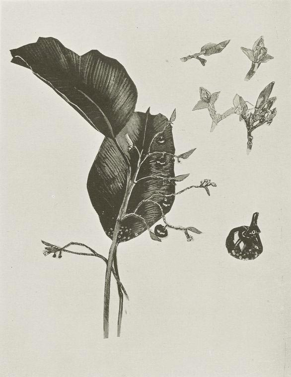 A species of Sarcophrynium, a handsome foliage plant in the Liberian undergrowth